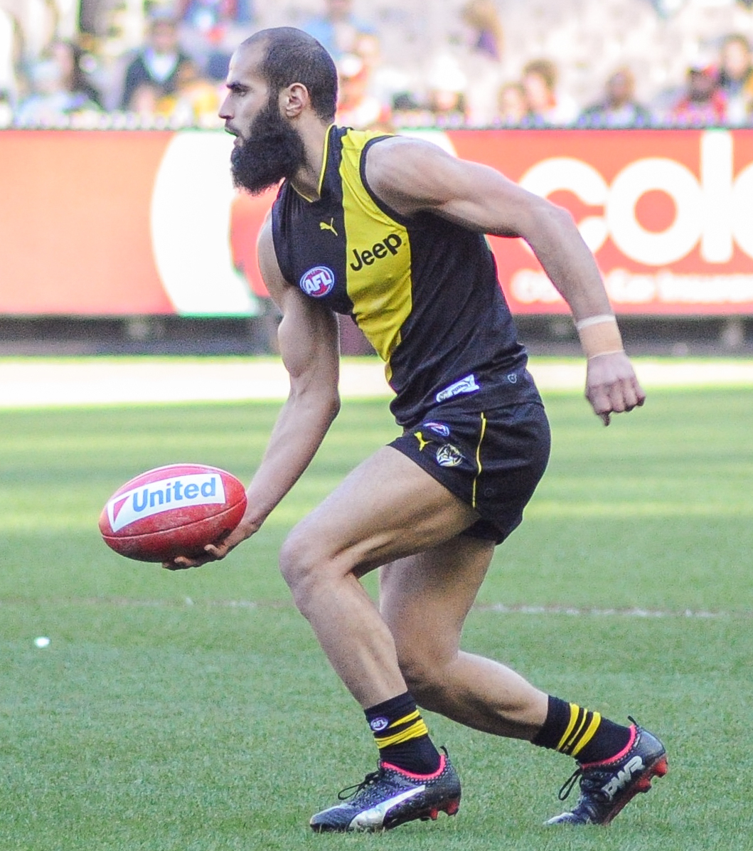 Bachar Houli handballing during the AFL round thirteen match between Richmond and Sydney on 17 June 2017 at the Melbourne Cricket Ground in Melbourne, Victoria.